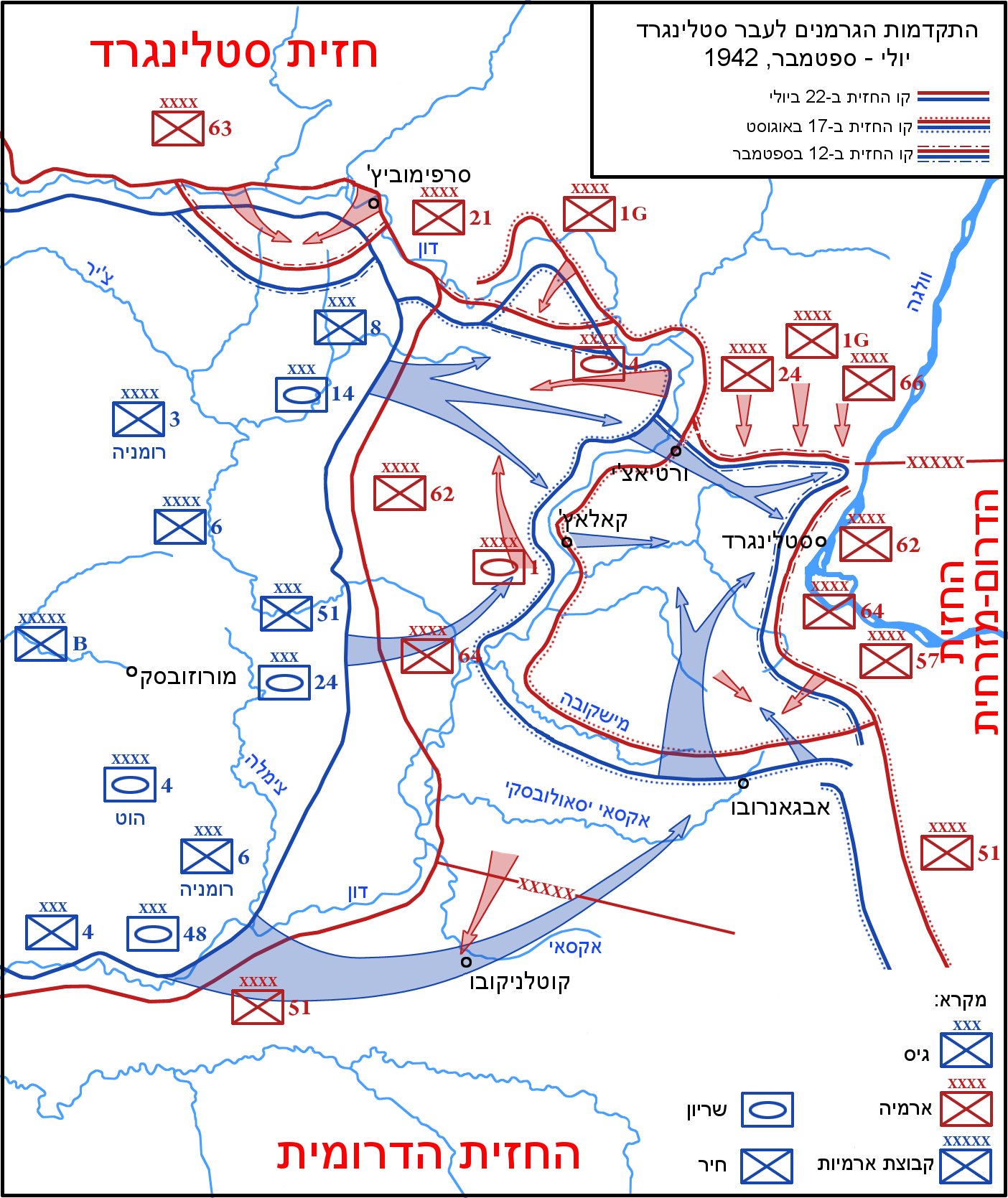 German summer offensive towards Stalindgrad between July and September 1942 - italian version